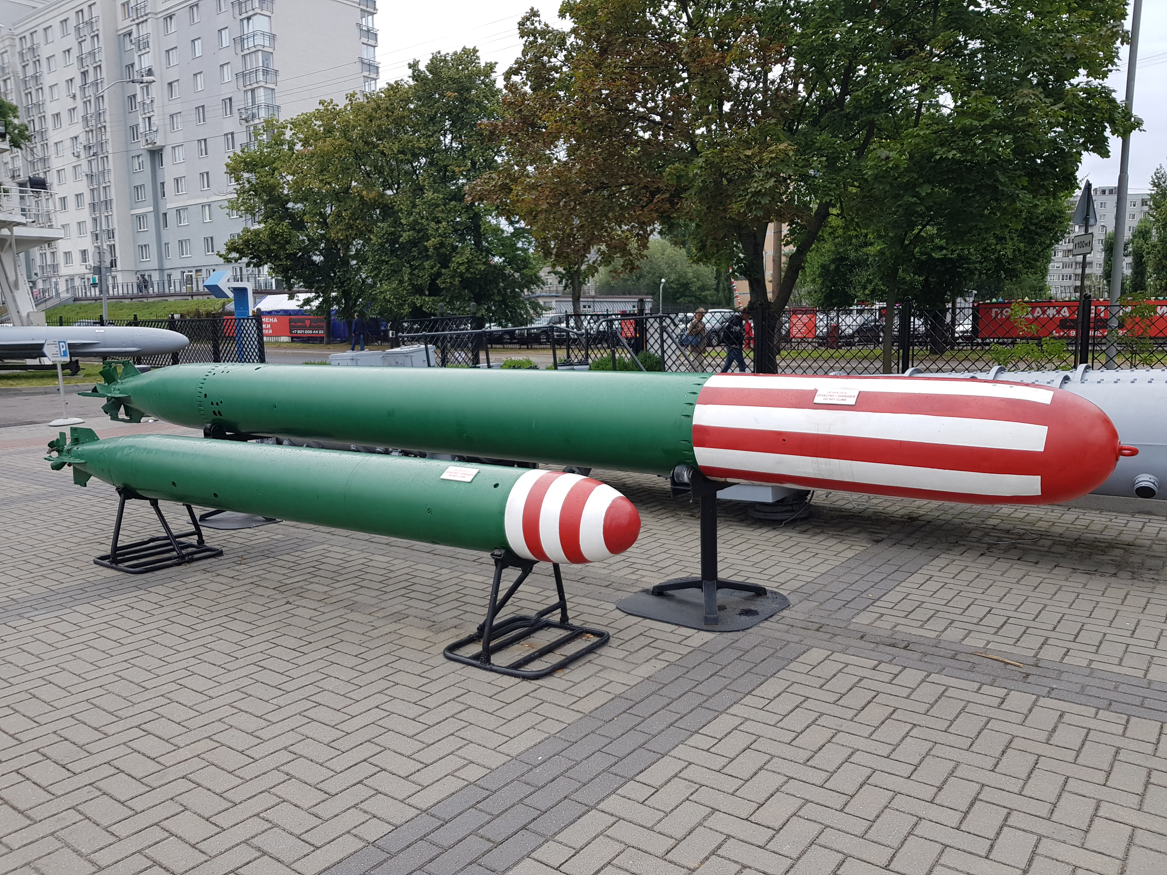 Soviet torpedoes of the types SET-40 (front) and SET-65, as manufactured 1965. The SET-40 carries 80 kgs of explosives and has a length of 4,50 metres with a diameter of 400 mm. It travels up to 7,5 km at a speed of 29 knots. Type SET-65 contains 205 kg of explosives, has a length of 7,90 metres and a diameter of 533 mm. It travels up to 15 km at a speed of 40 knots. Both are on display at the Pavilion Naval Center “Water Cube” (Павильон Военно-морского центра "Куб воды") in Kaliningrad.